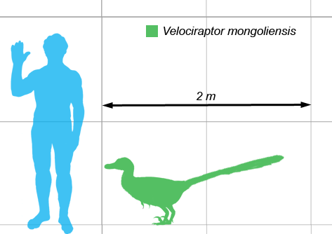 Size comparison of Velociraptor to a human. Each grid segment represents 1 square meter.' Based on an illustration by Matt Martyniuk.